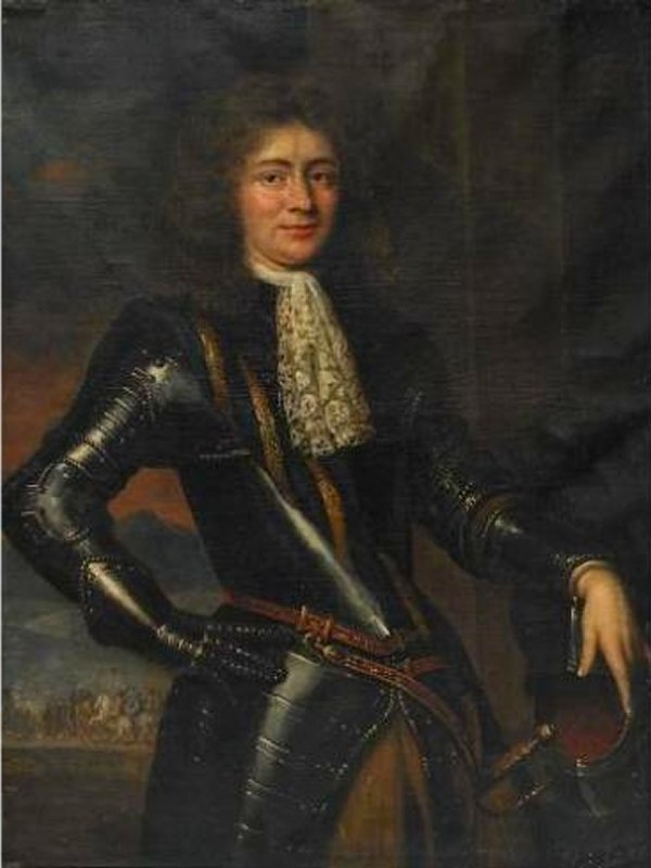 Hyacinthe Rigaud: Portrait of Count Jerhard Van Dernath. Provenance: Homonna Castle, Hungary.